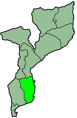 Map of Inhambane Province, Mozambique